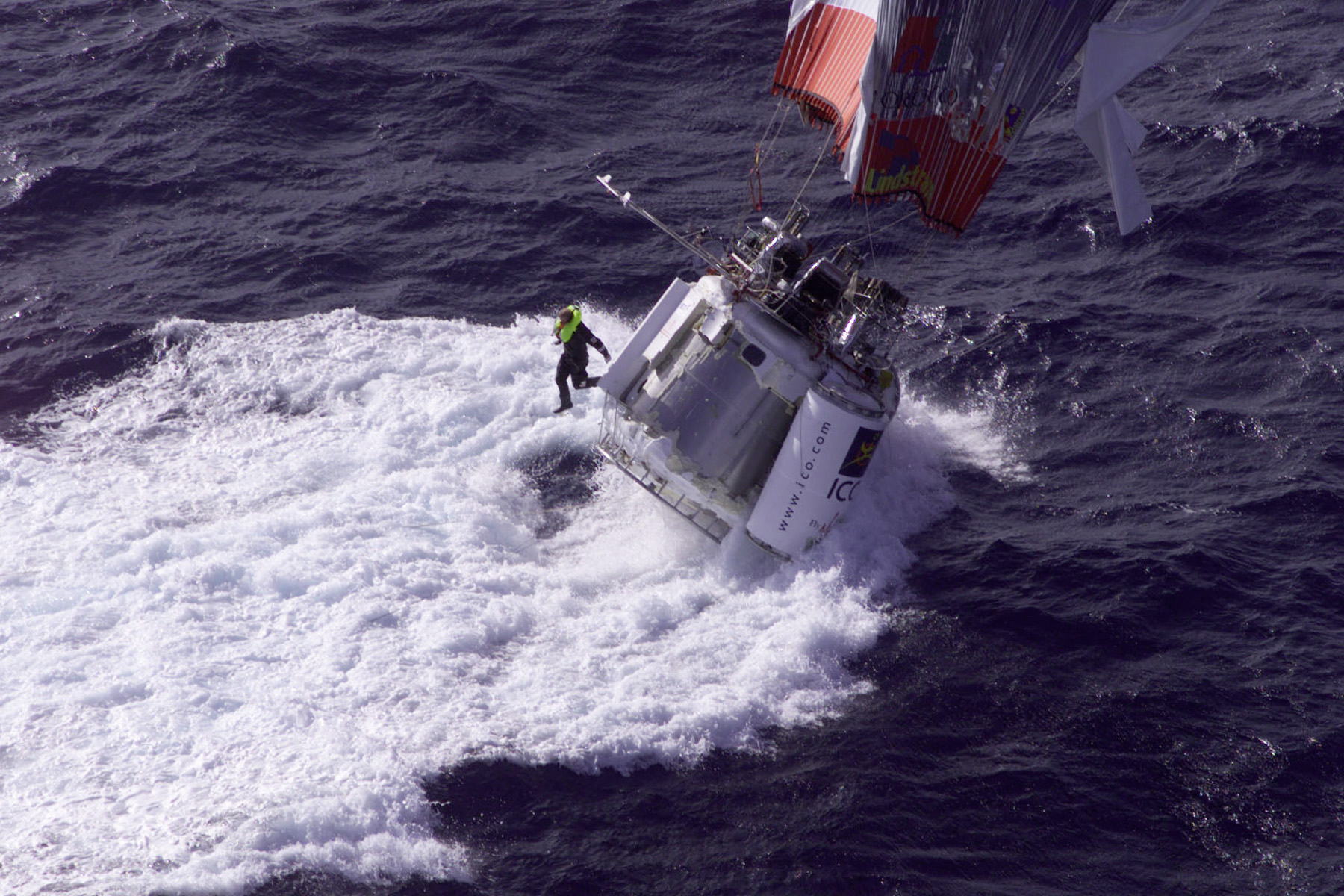 One of the three balloonist jumps from the capsule as it crashed into the Pacific ocean during a failed attempt to circle the globe. The adventurers were stalled by the weather north of Oahu on Christmas Eve. They landed the balloon the next morning 12,500 miles into their 25,000 mile journey. The three were British billionaire Richard Branson, American millionaire Steve Fossett and Per Lindstrand of Sweden.